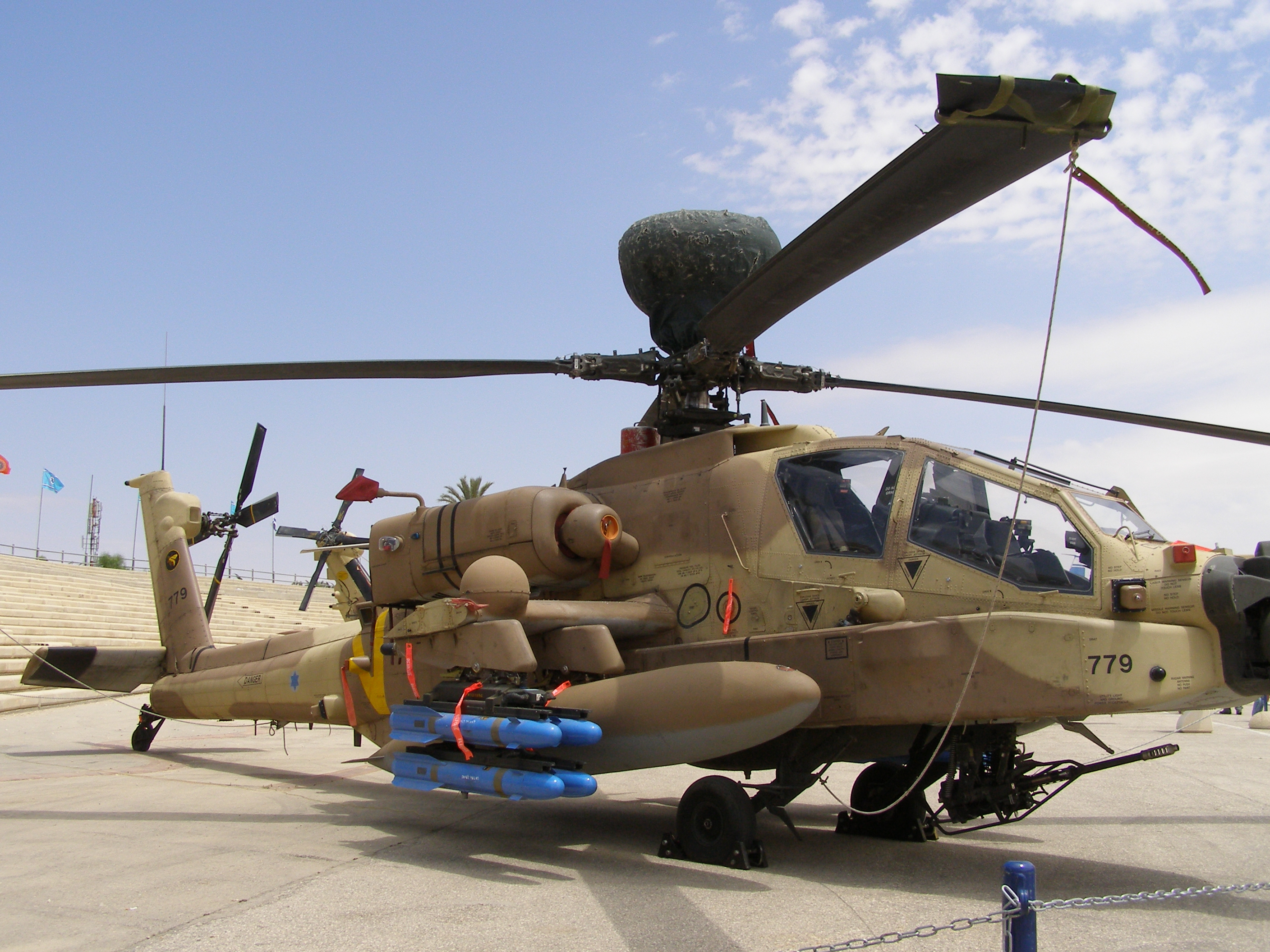 Israeli AH-64D in the Israeli Air Force Museum in Independence Day 2008